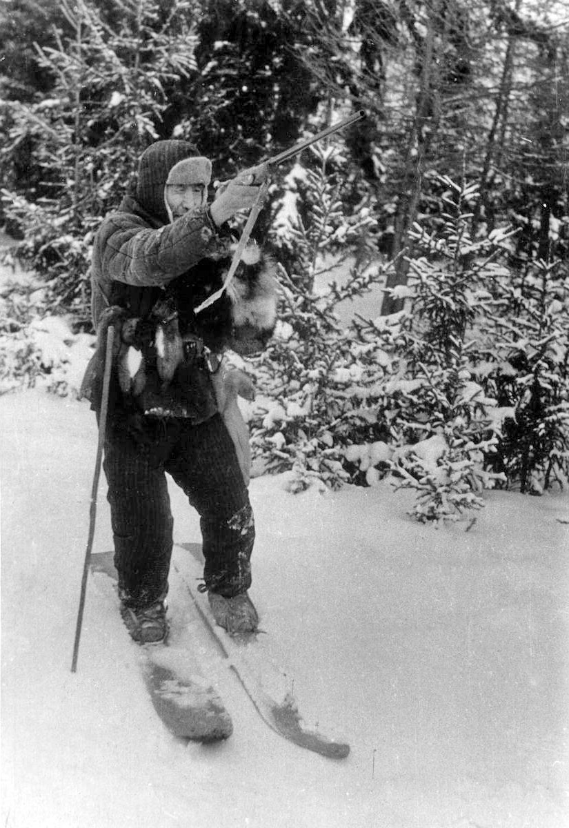 Yakut Sakha hunter Beginning of the 20th c. Yakutia.